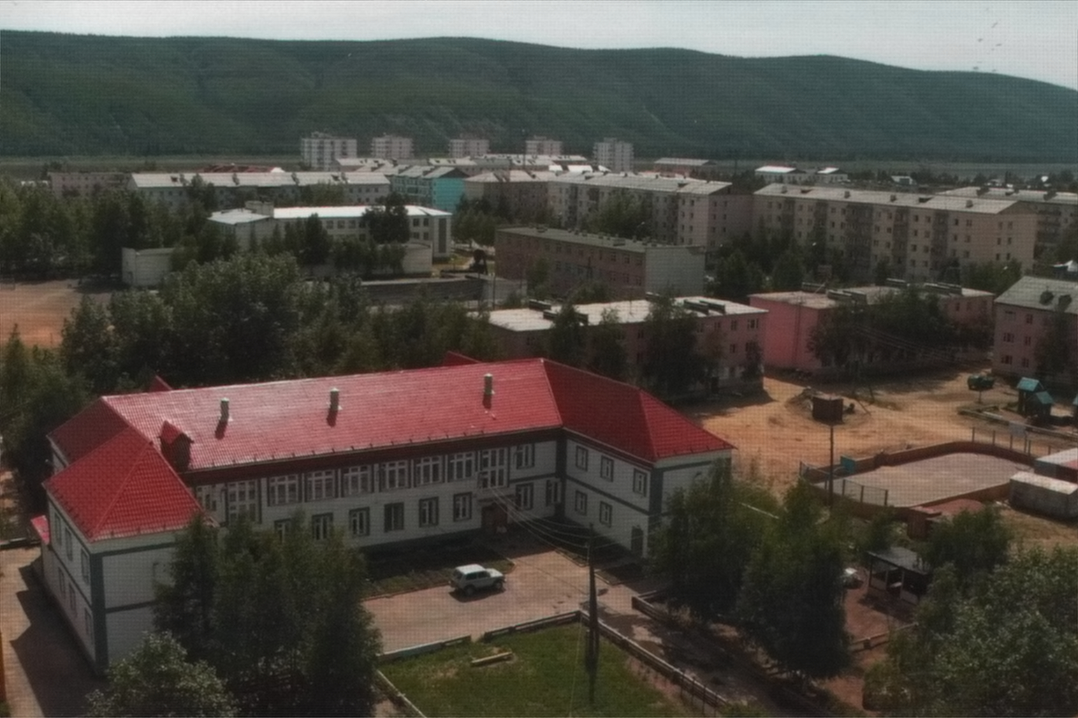 View of the city center of Lensk